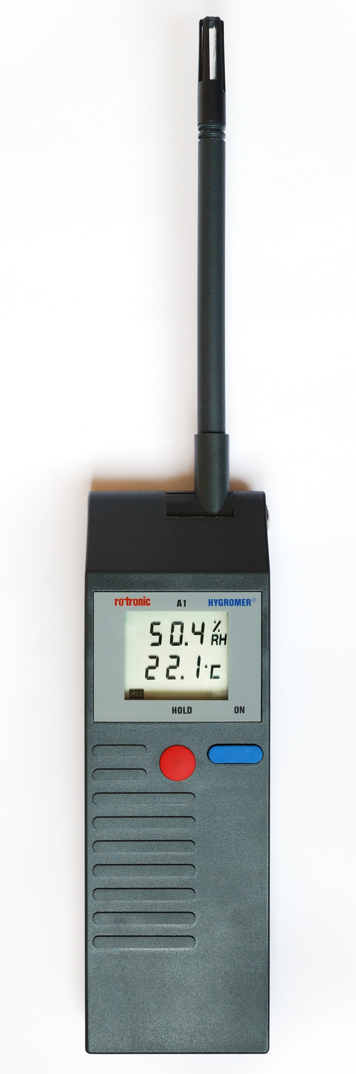 Hand held temperature and humidity meter (thermohygrometer), type rotronic A1. Humidity is measured by means of a capacitive sensor, the temperature will measure with a PT100 Resistor (100 Ohm at 0`C, PTC). The diameter of the swiveling probe is 10 mm. Measuring ranges: humidity 5% rh to 99.9 % rh, temperature -20°C to +60°C.